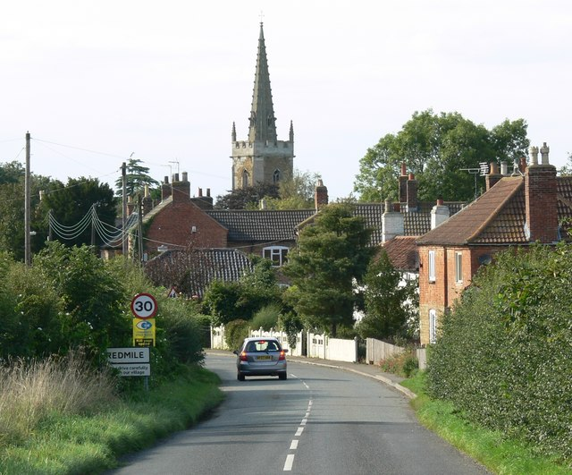 Redmile: Belvoir Road Looking towards the spire of St. Peter's Church.